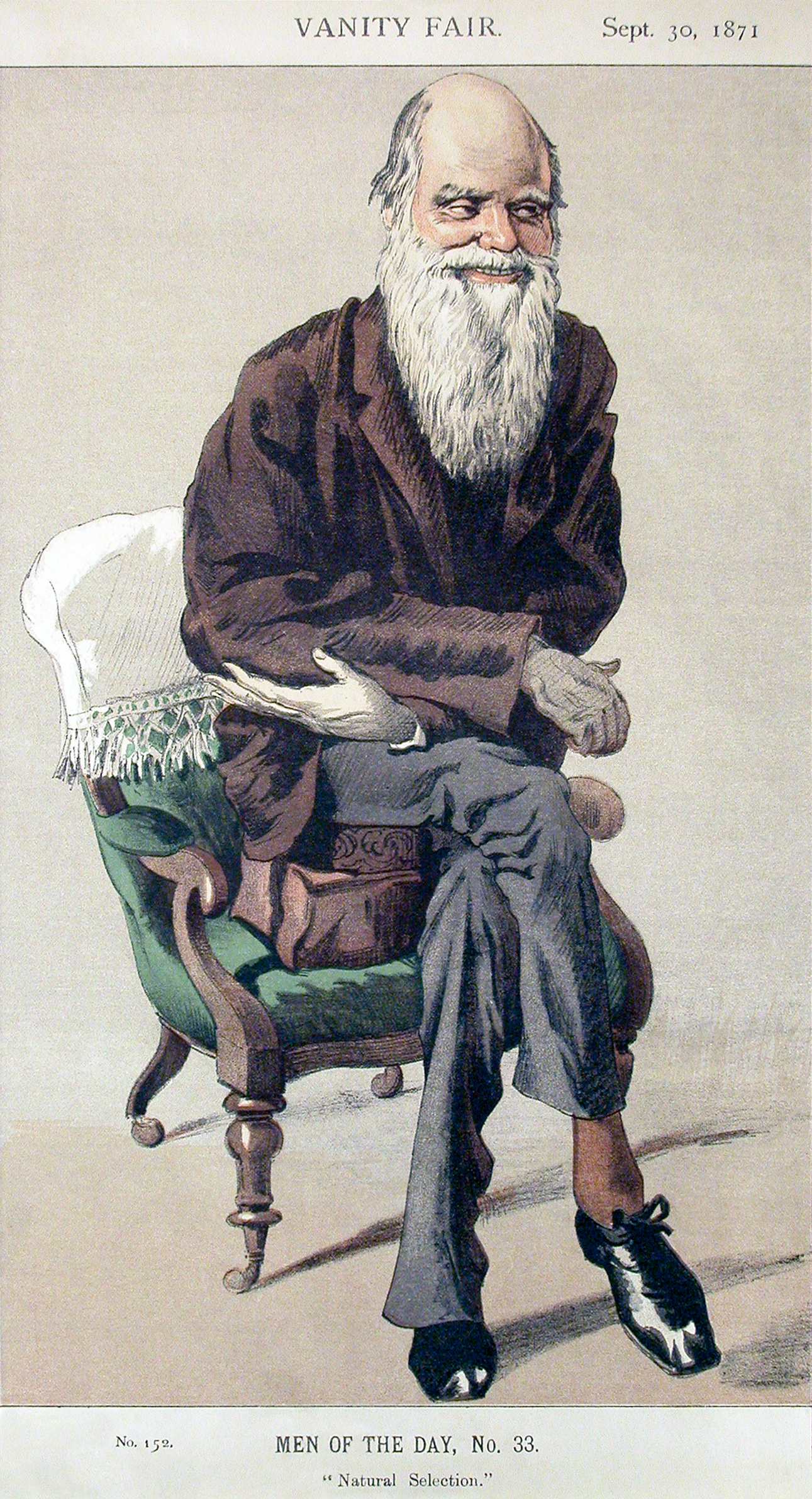 Caricature of Charles Darwin from Vanity Fair magazine. Caption read "Natural Selection".